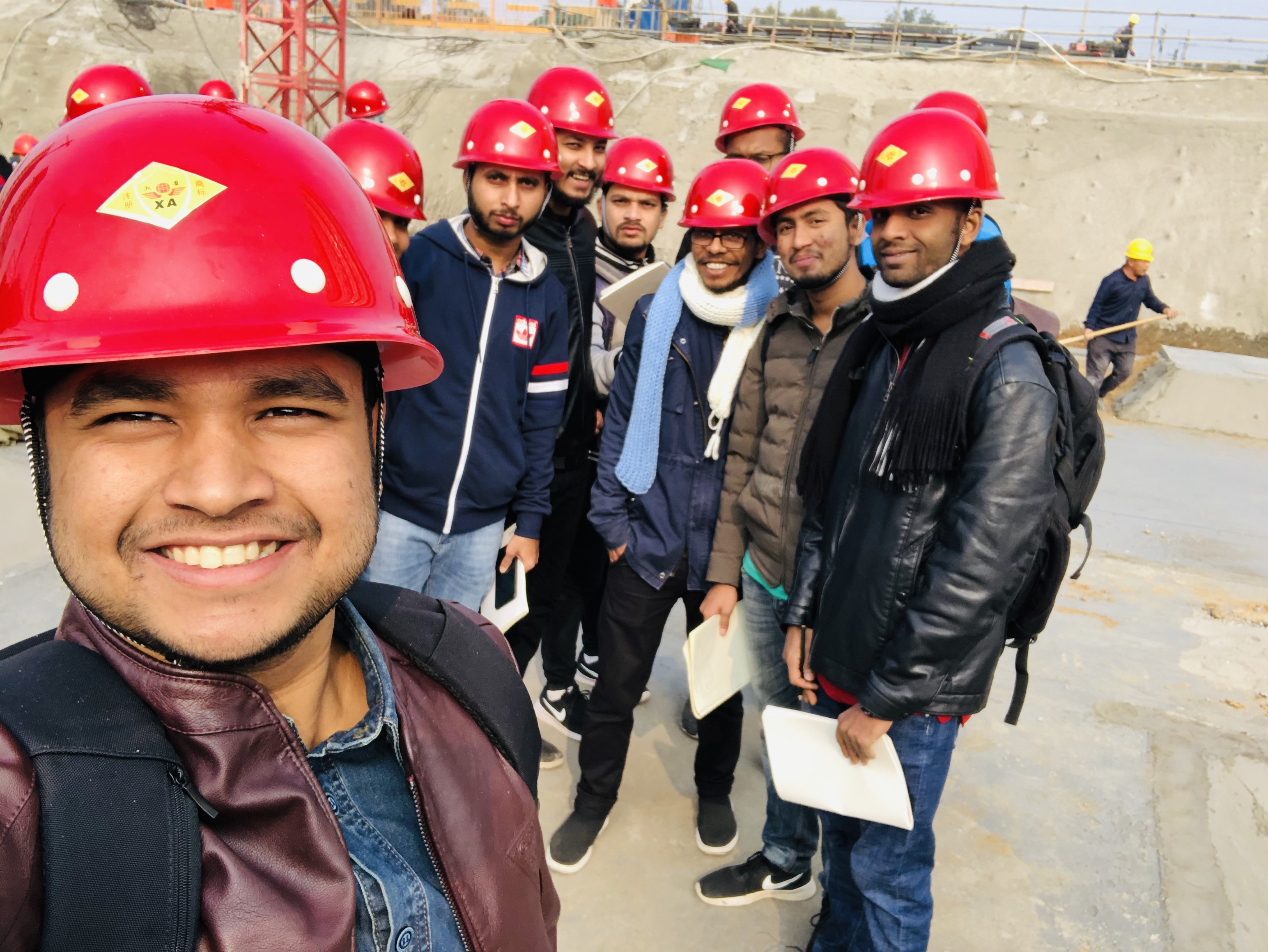 industrial tour from school of civil engineering